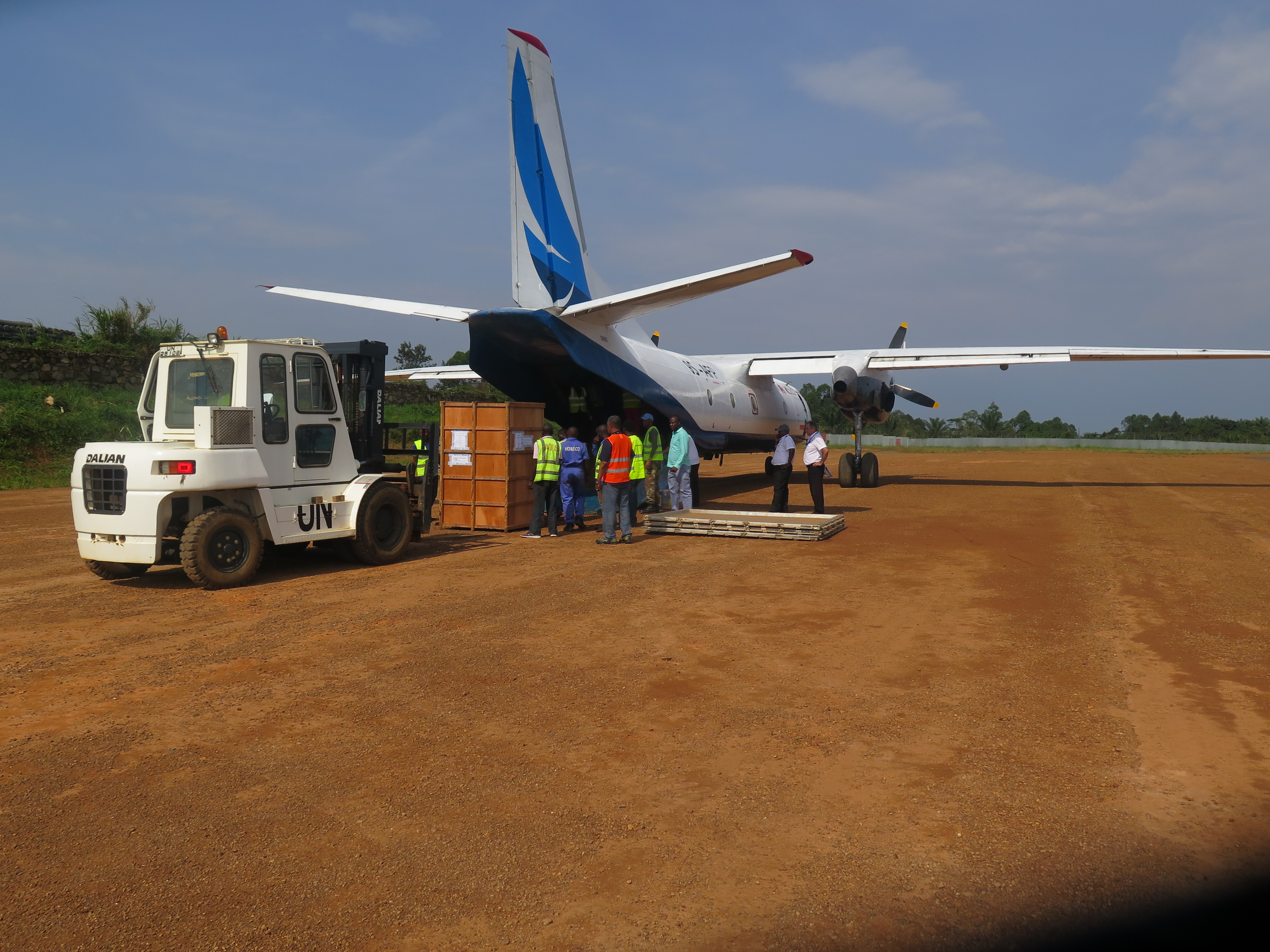 Beni,North Kivu Province,DR Congo: Arrival of medical logistics at the Beni Airport fot the fight against the spread of Ebola in the region.Photo MONUSCO/Mamadou Alain Coulibaly